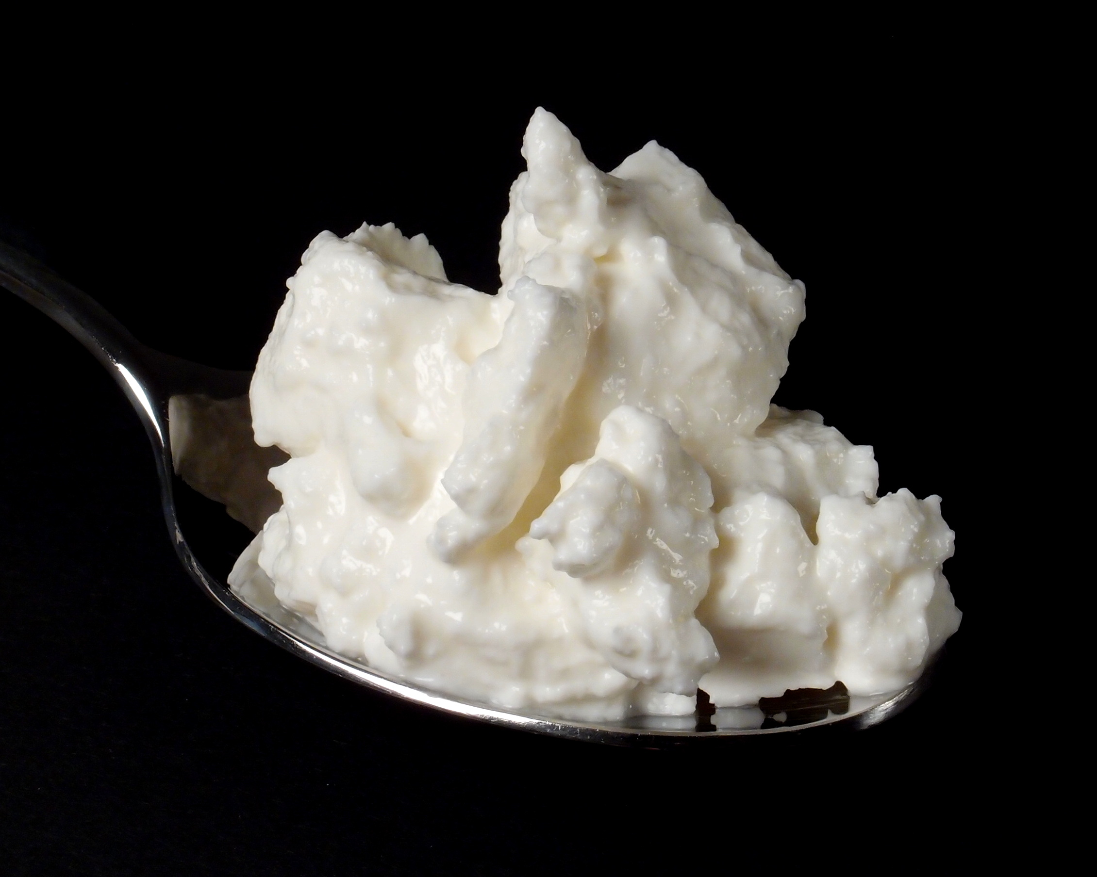 Skimmed milk quark, a soft, very moist, unripened cheese. It is available with different fat contents, usually (in the German retail market) the available fat levels are skimmed-milk (less that 10 % fat in the dry matter), 20 and 40 % fat in the dry matter.